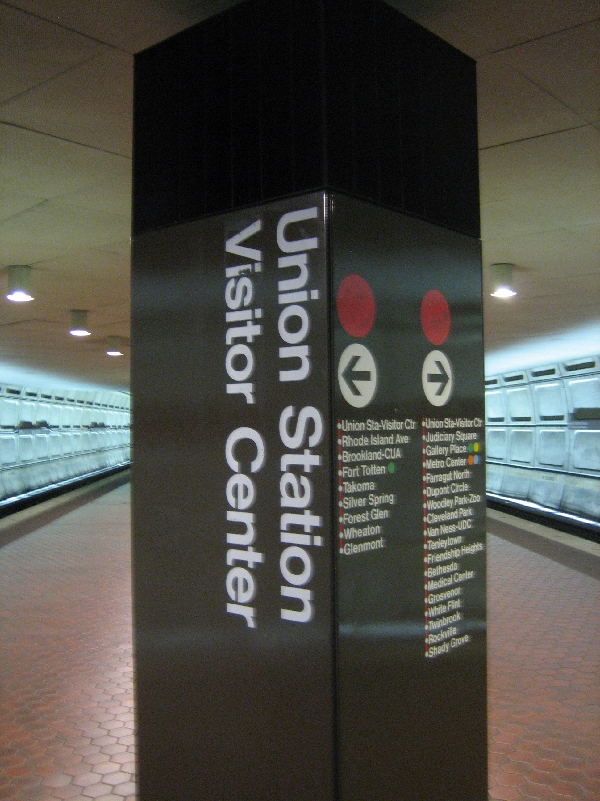 A ventilation pillar beneath the center mezzanine of the Union Station stop of the Washington Metro, inside Washington Union Station. The old "Union Station Visitor Center" name is visible.